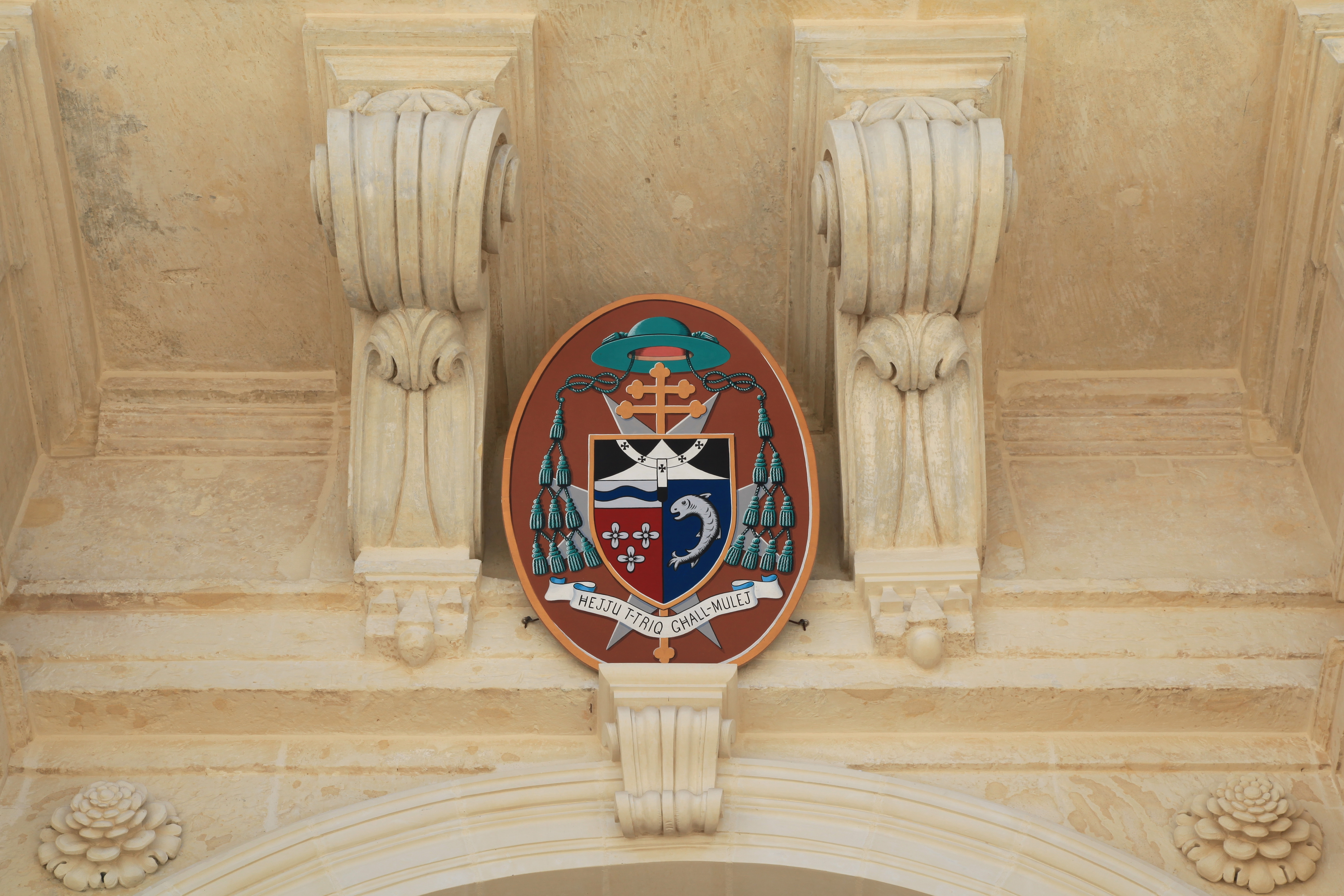 Żebbuġ Parish Church at Misraħ San Filep in Żebbuġ, Malta